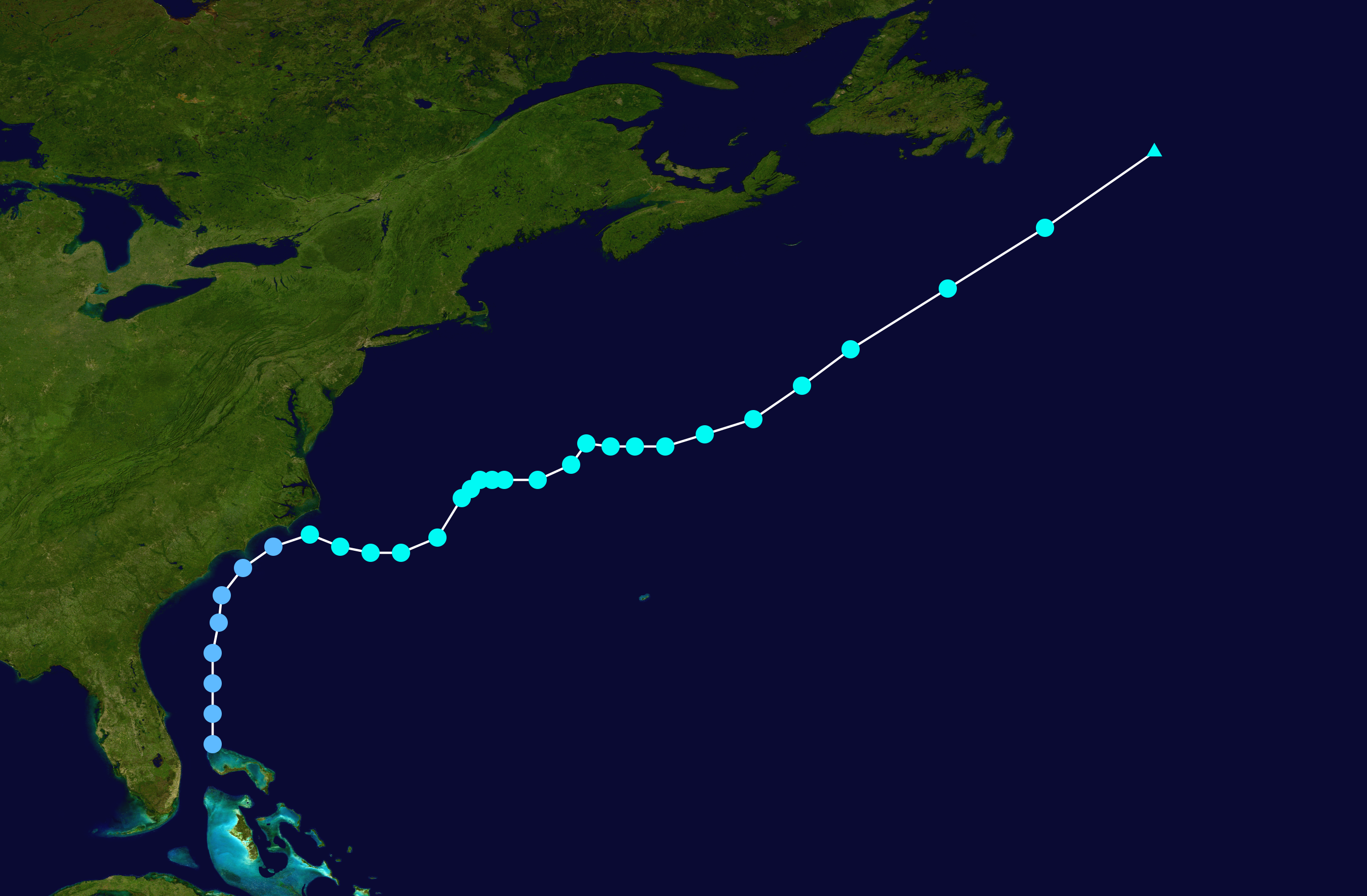 Tropical Storm Amy (1975) track. Uses the color scheme from the Saffir-Simpson Hurricane Scale.